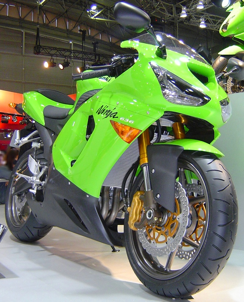 The front view of Kawasaki ZX-6R 2006